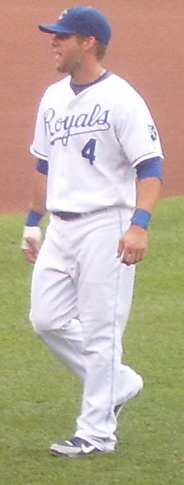 Alex Gordon, thirdbaseman of the Kansas City Royals.